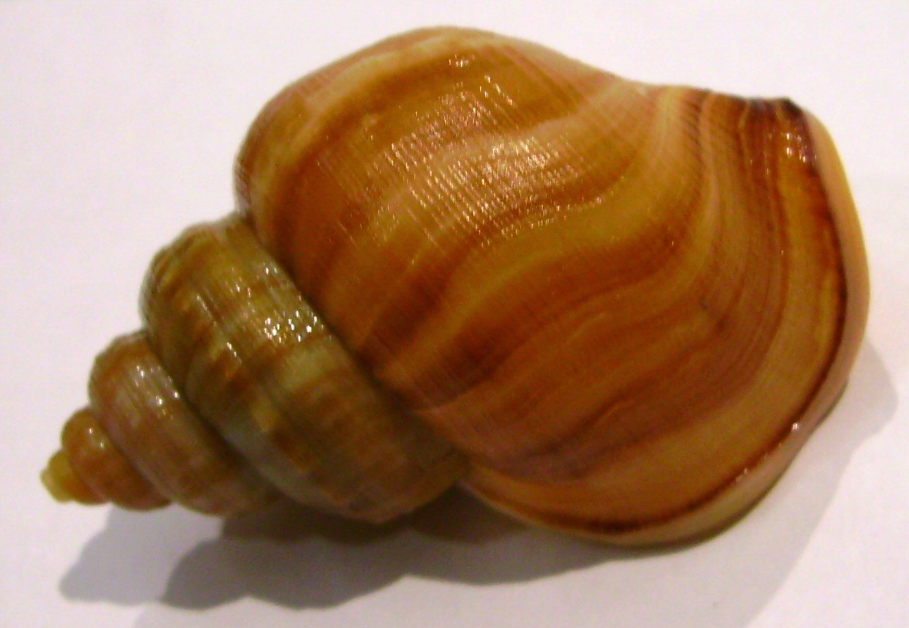 Struthiolaria vermis vermis (small ostrich foot) dredged from Northland east coast, New Zealand. This work has been released into the public domain by its author, Graham Bould. This applies worldwide.In some countries this may not be legally possible; if so:Graham Bould grants anyone the right to use this work for any purpose, without any conditions, unless such conditions are required by law.